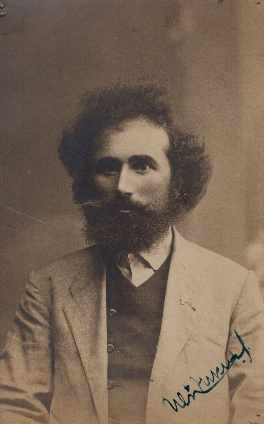 Portrait of Ivan Hadzhinikolov from Macedonian-Adrianopolitan Volunteer Corps